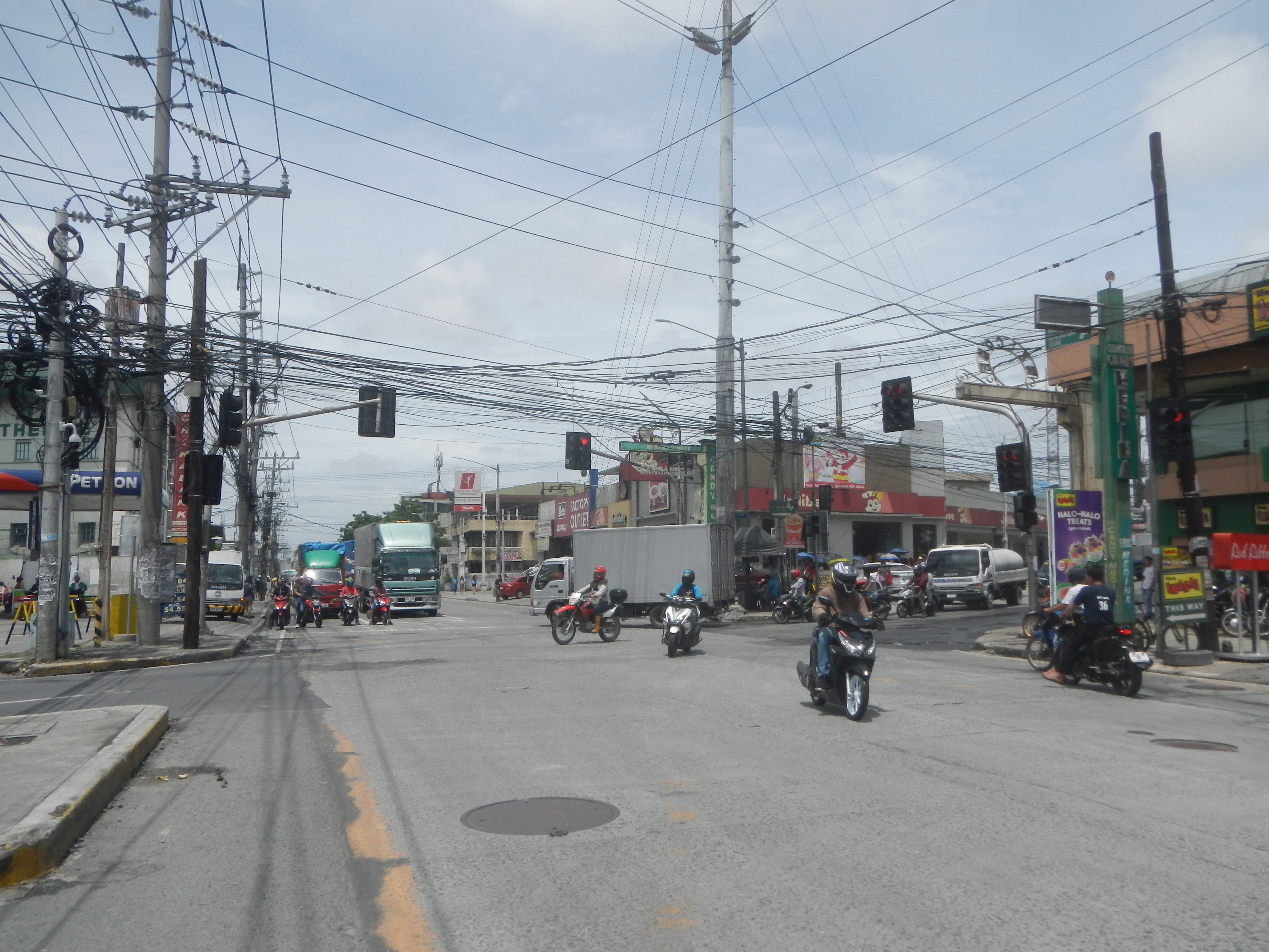 Quirino Highway (Balon-bato, Balintawak, Baesa, Talipapa, Sangandaan, Bagbag, San Bartolome, Gulod & Novaliches Proper) from Quirino Highway (Balongbato-Camachile-Baesa, District 6, Quezon City section), Pedestrian bridge (Quirino Highway, Balongbato-Camachile, District 6, Quezon City), from and along NLEX Service Road along and from Camachile Overpass (Quezon City) or Unang Sigaw Pedestrian overpass (Balintawak, Quezon City) of the North Luzon Expressway, Radial Road 8 (gateway to List of barangays of Metro Manila Legislative districts of Quezon City Districts 6, Barangays of Quezon City, Balon-Bato 14°39'50"N 121°0'10"E Baesa 14°40'14"N 121°0'38"E Sangandaan 14.6724, 121.0180 Talipapa 14°41'14"N 121°1'31"E Bagbag 14°41'54"N 121°1'57"E San Bartolome 14°42'18"N 121°2'24"E Gulod 14°43'0"N 121°2'25"E Novaliches Proper 14°43'15"N 121°2'16"E District 6, Quezon City Philippine highway network (Note: Judge Florentino Floro, the owner, to repeat, Donor Florentino Floro of all these photos hereby donate gratuitously, freely and unconditionally Judge Floro all these photos to and for Wikimedia Commons, exclusively, for public use of the public domain, and again without any condition whatsoever).